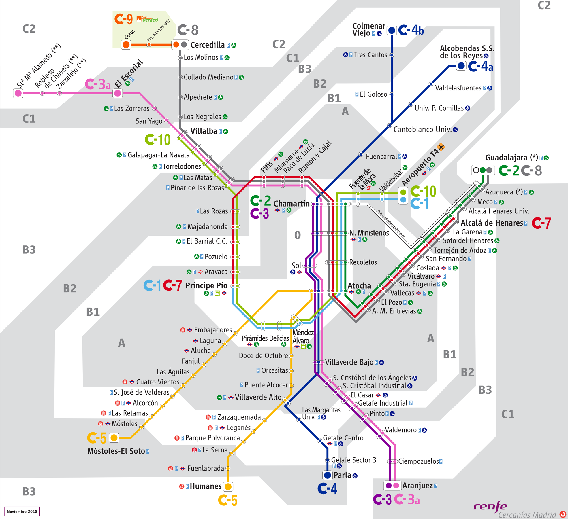 Cercanías Madrid Map, February 2018